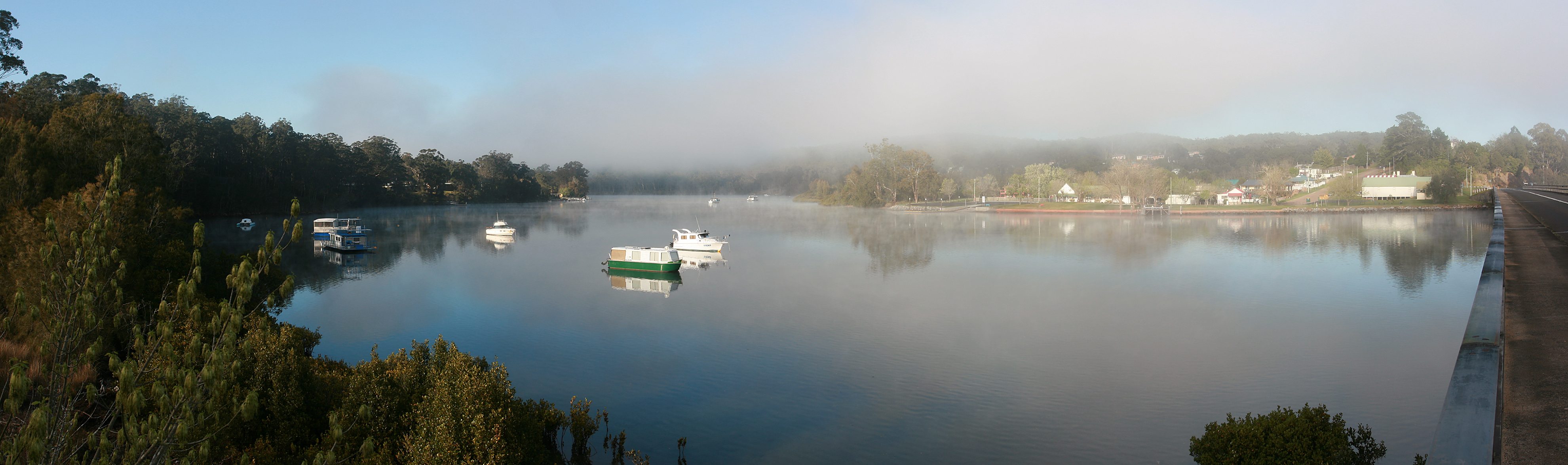 Early morning mist across the Clyde River at Nelligen, New South Wales, Australia. At right is the Kings Highway road bridge across the Clyde; a punt service operated at this location from 1895 to 1964, when the bridge was completed.